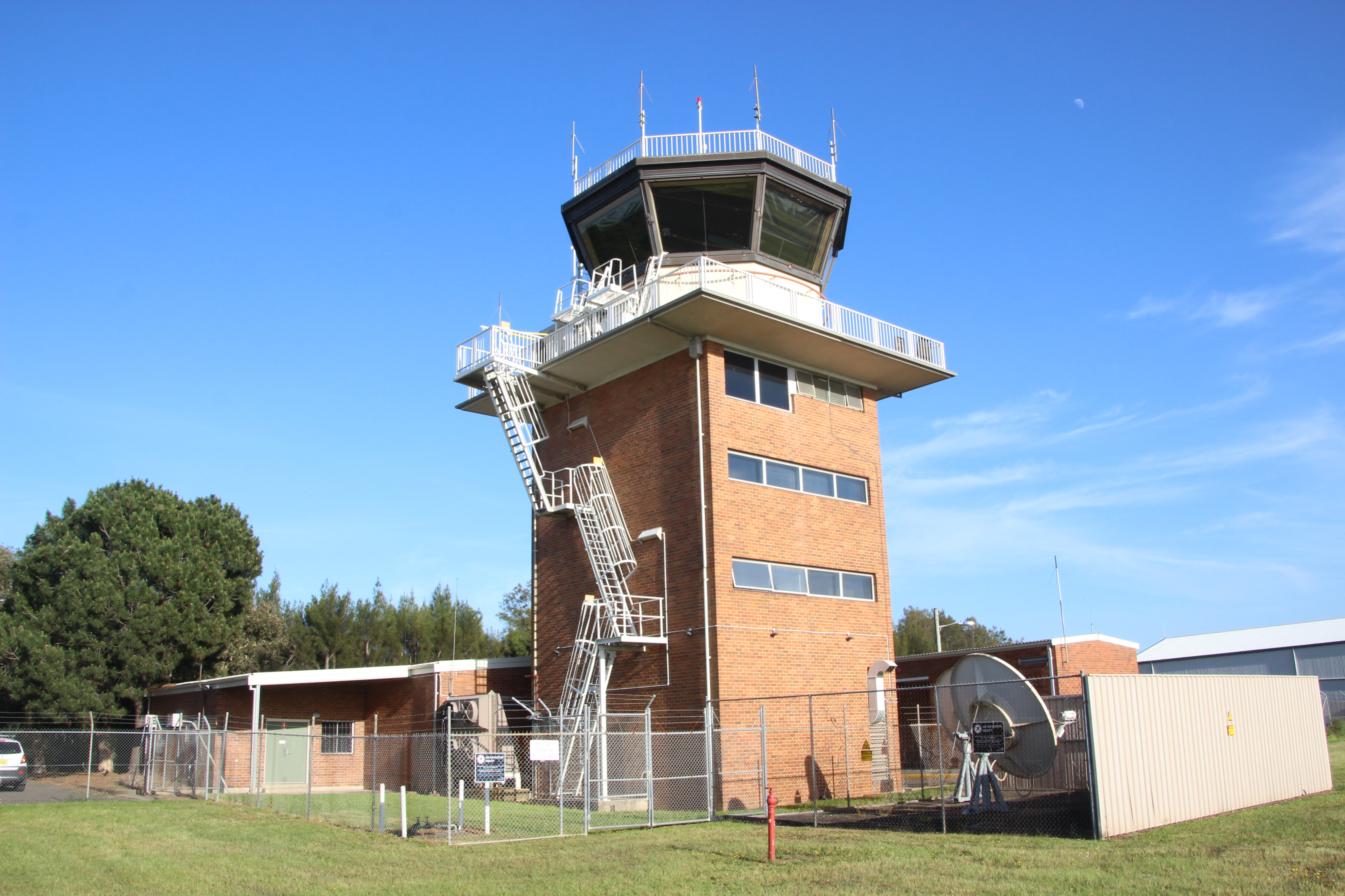 The heritage-listed air traffic control tower and some of its ancillary structures at Bankstown Airport in Sydney, Australia.